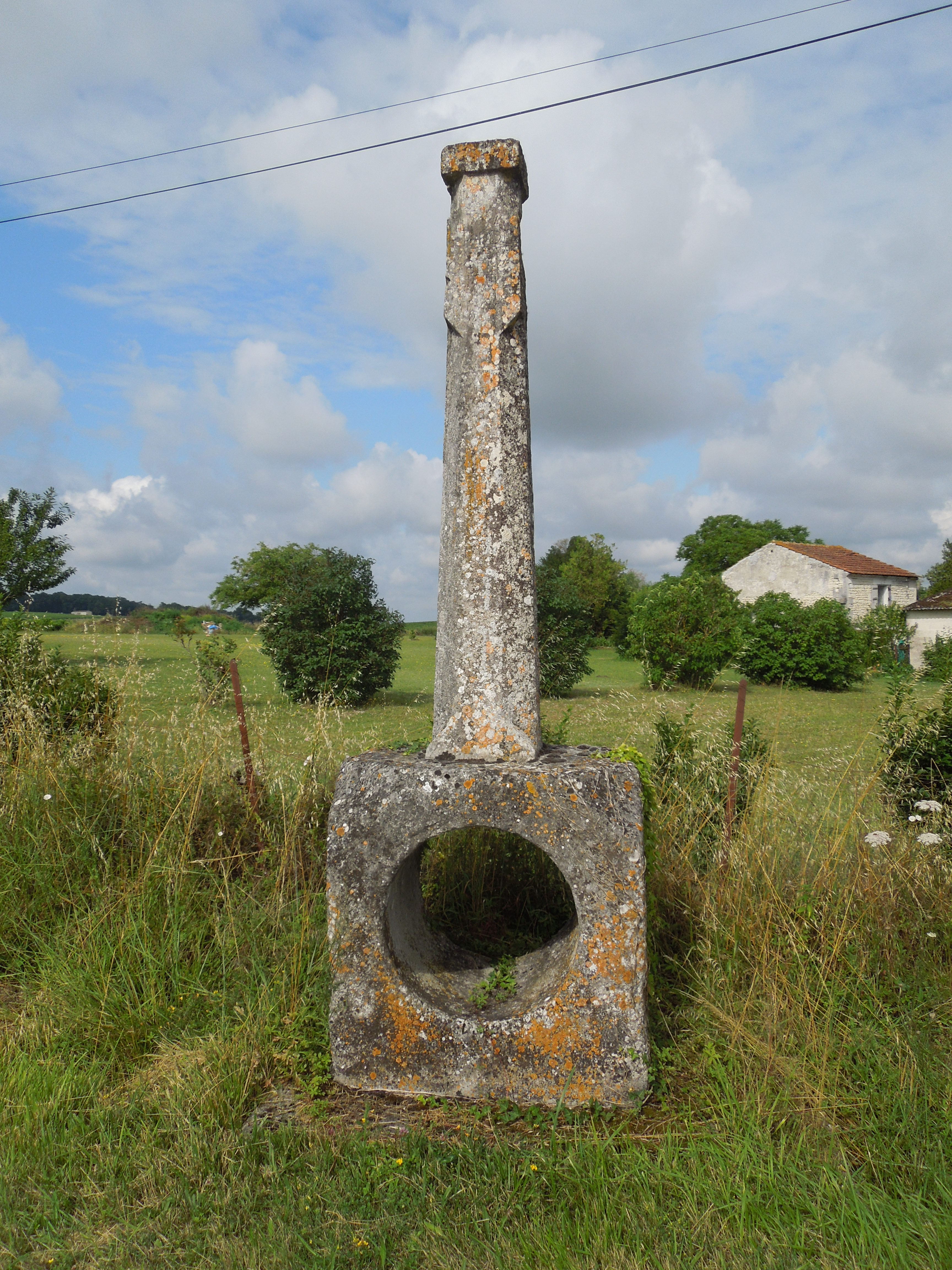 The "pierced stone" (Pierre Percee) at Sainte-Lheurine